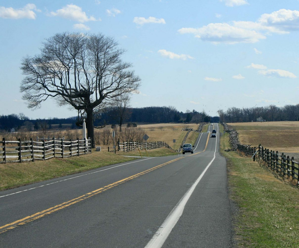 Gettysburg, the road to Emmitsburg and South-West corner of the Peach Orchard